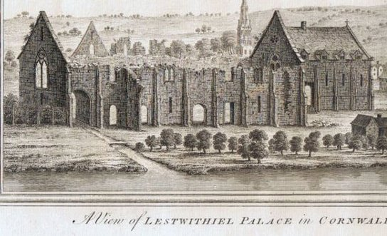 Circa 1734 engraving by the Buck brothers of the ruins of the Duchy or Stannary Palace, Lostwithiel, Cornwall.